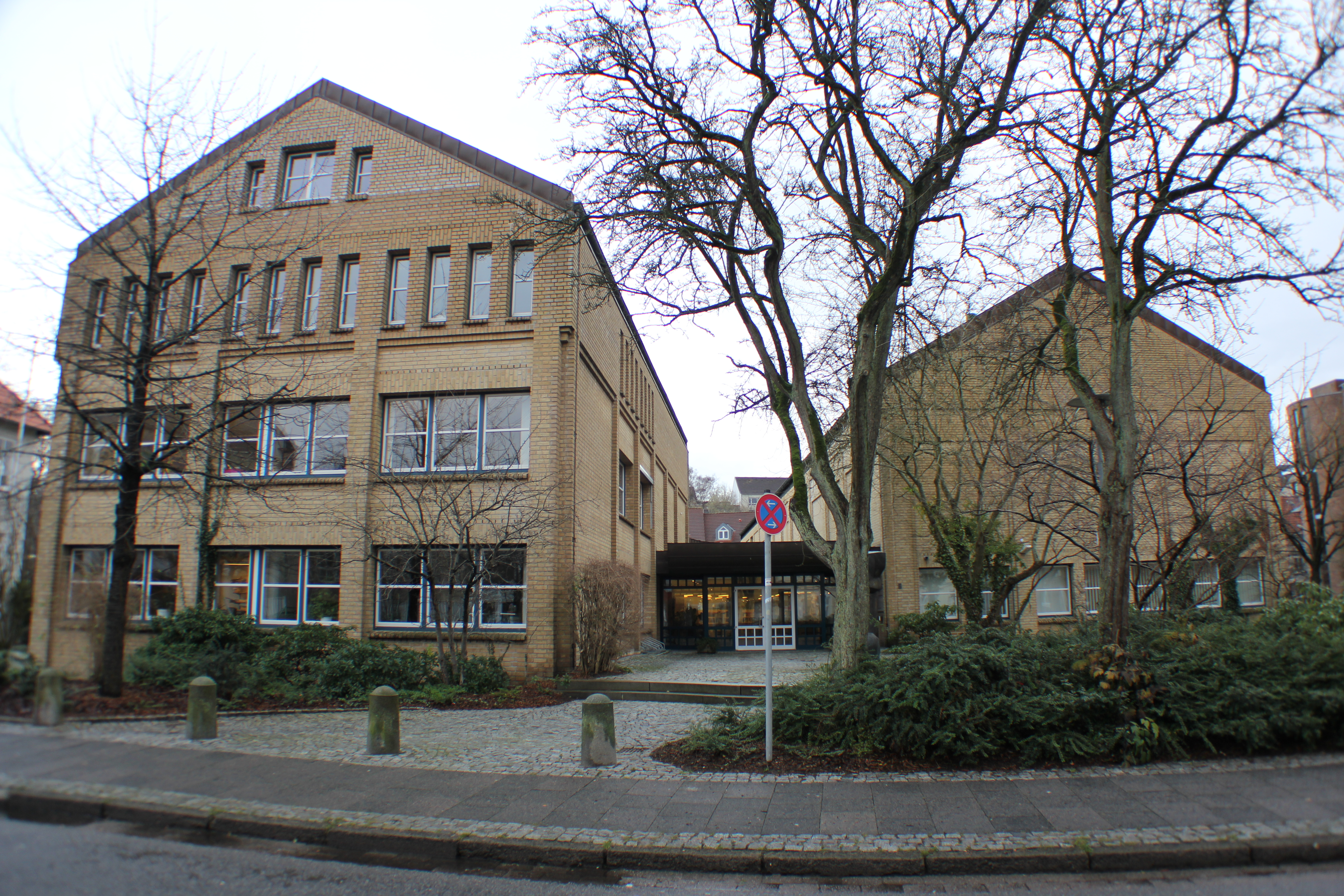 Leihverkehrs- und Ergänzungsbibliothek (LEB) Waitzstr. 5 (bis 2010 Landeszentralbibliothek Flensburg)